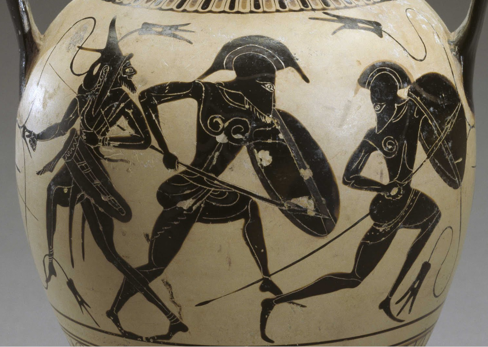 Detail from an attic black-figure neck amphora with scene from the Iliad ca 540-520 BCE attributed to the Hattat painter.